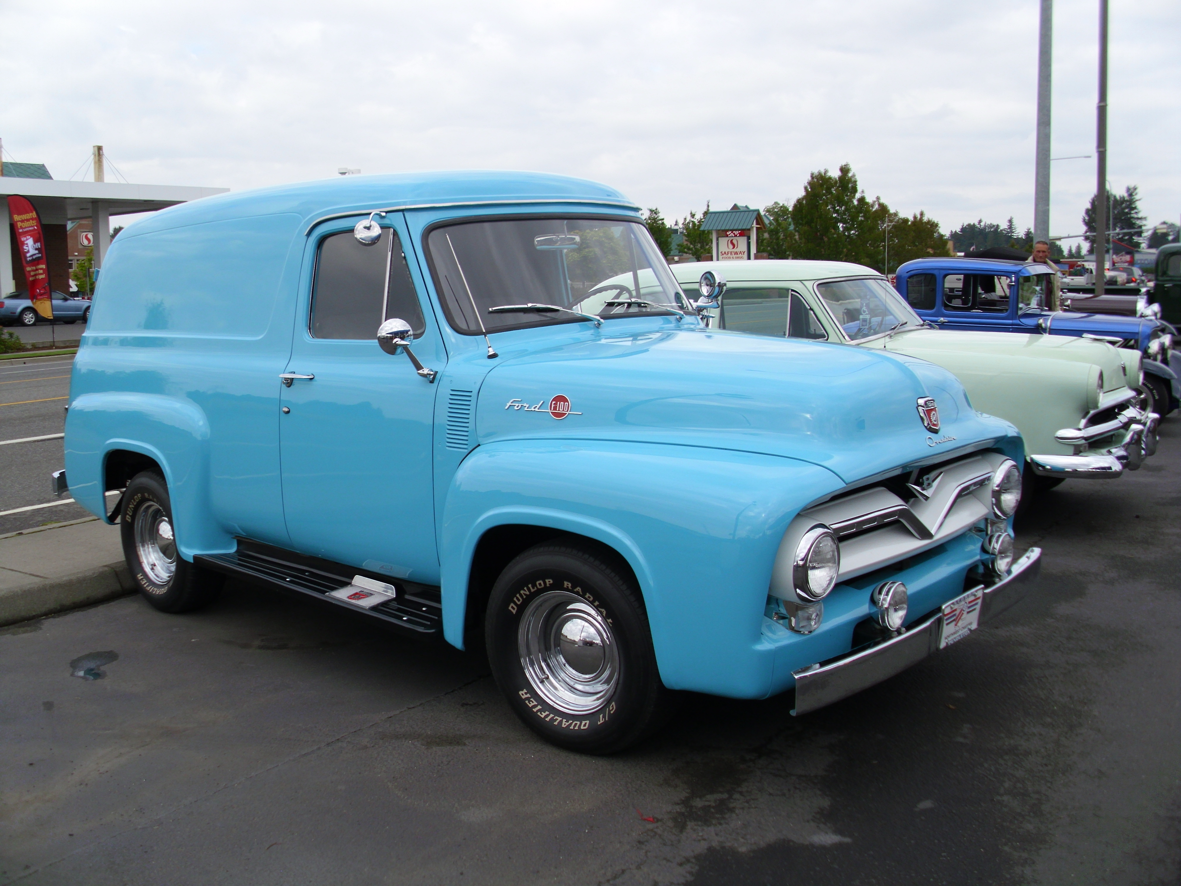 Seen at a small car show on the lot of the Ford dealer in Lynden, Washington.